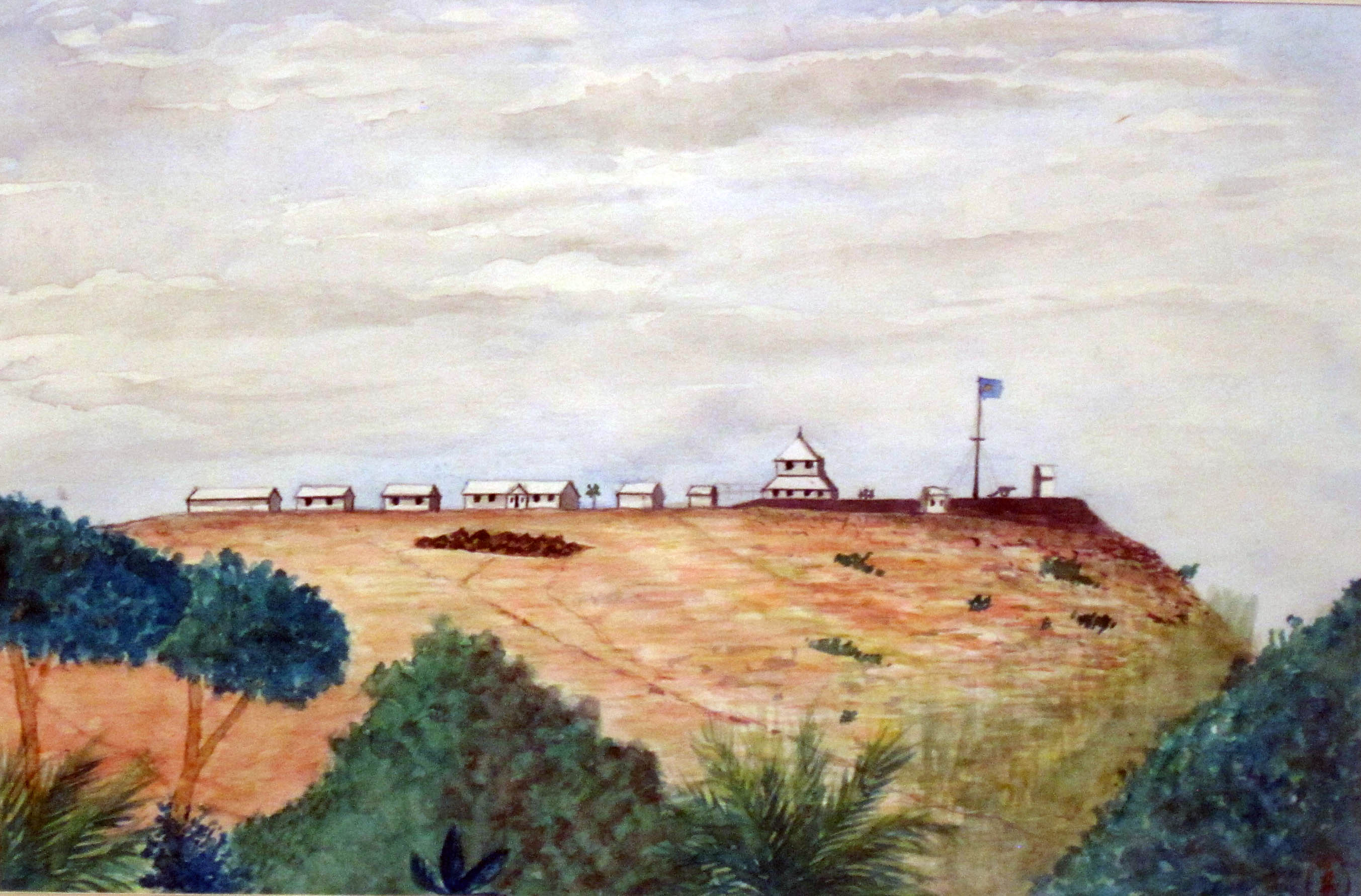 Contemporary engraving of the Station of Vivi in the Congo Free State (1887) In Royal Museum for Central Africa, Terveuren.